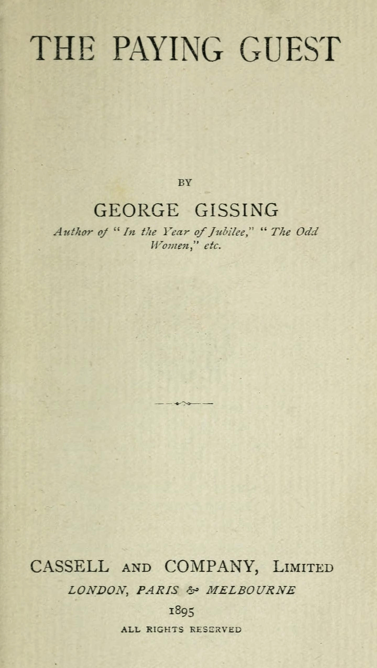 1st edition title page